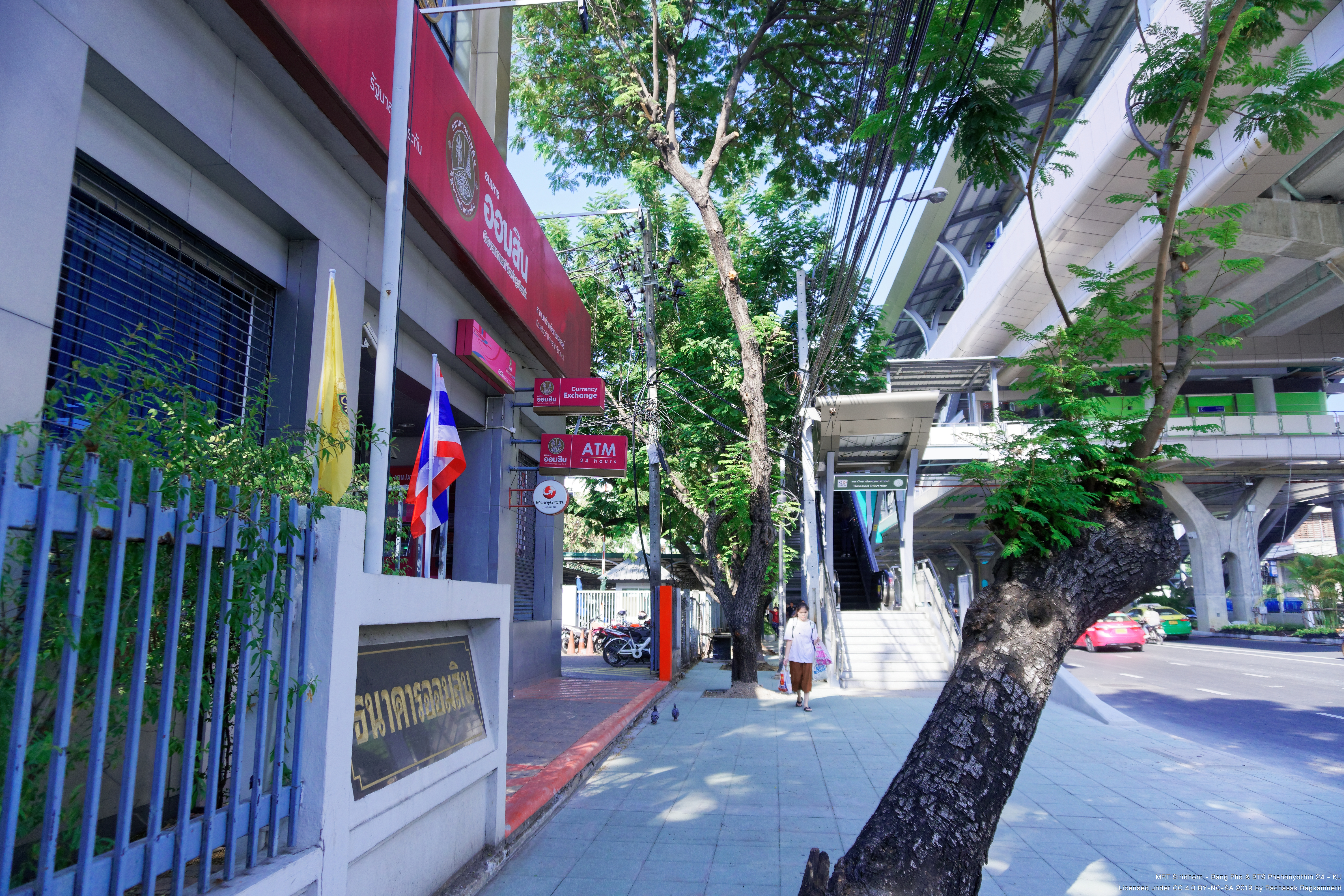 BTS Kasetsart University - KU exit with GSB bank